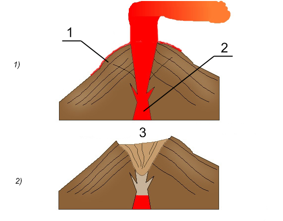 Scheme of a caldera's creation